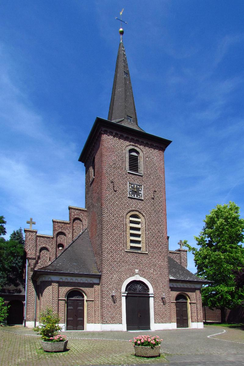 Kirche Rath-Anhoven